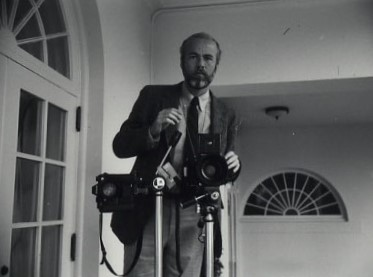 David Hume Kennerly at work at the White House in 1981